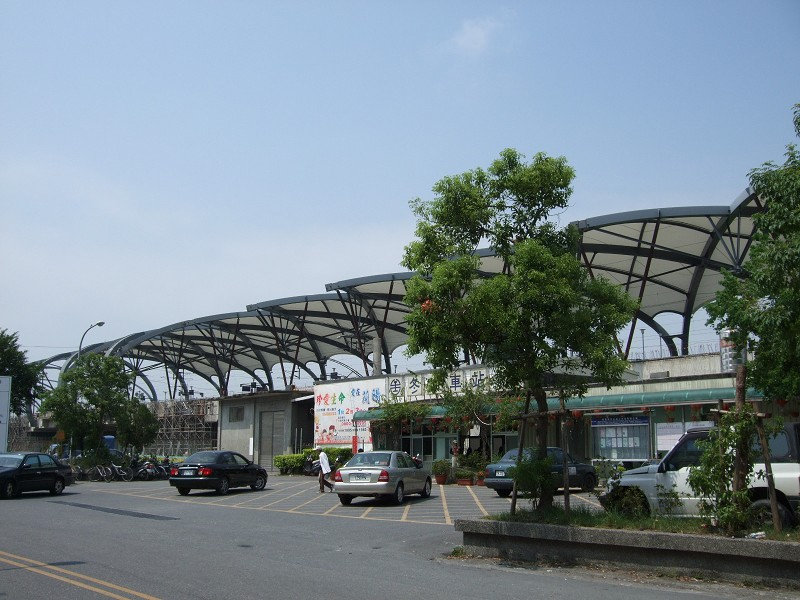 Taiwan Railway Administration Dongshan Station.